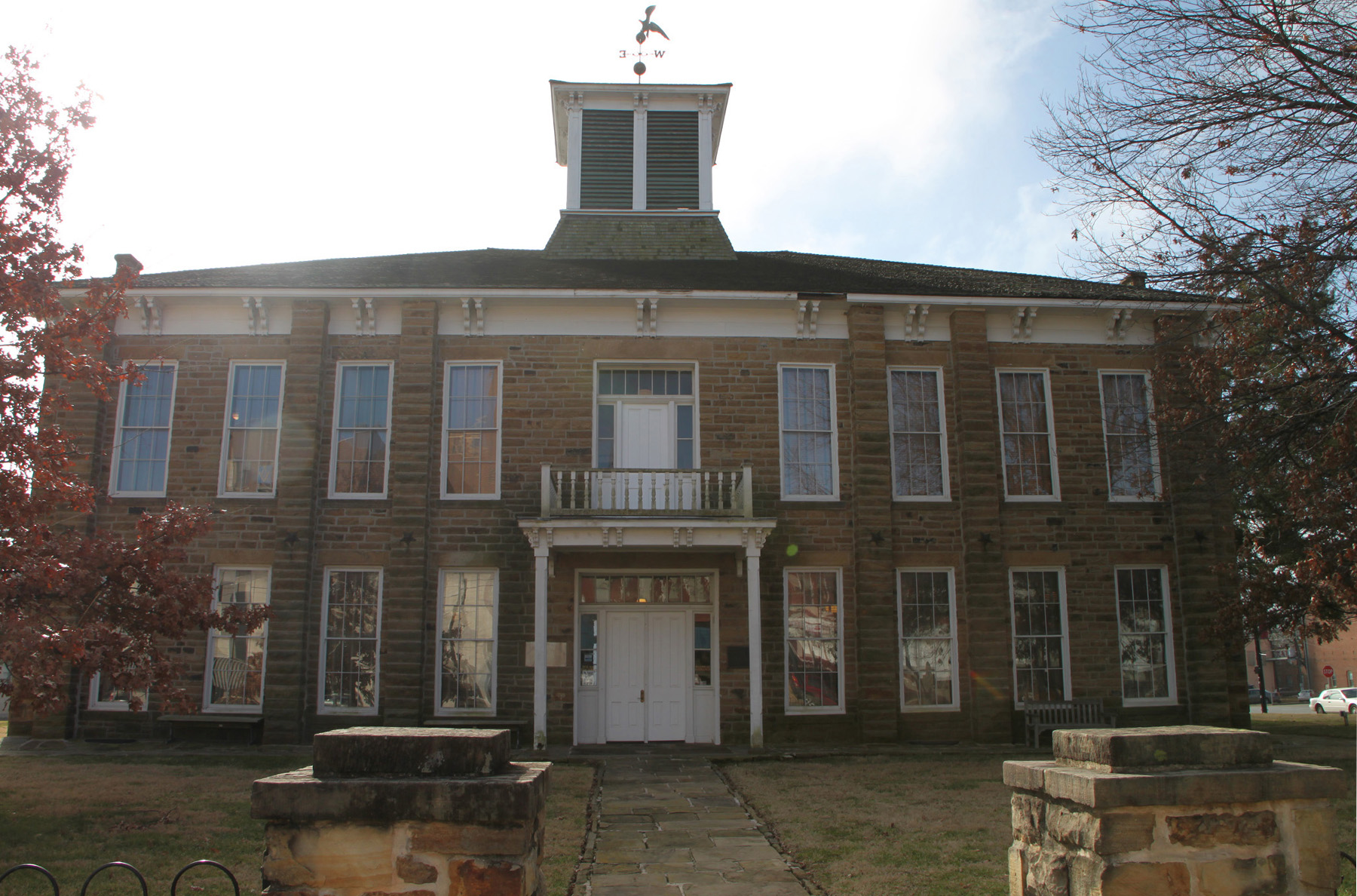 Creek Council House building. Located in Okmulgee, ok. Historic capitol of the Muscogee (Creek) Nation